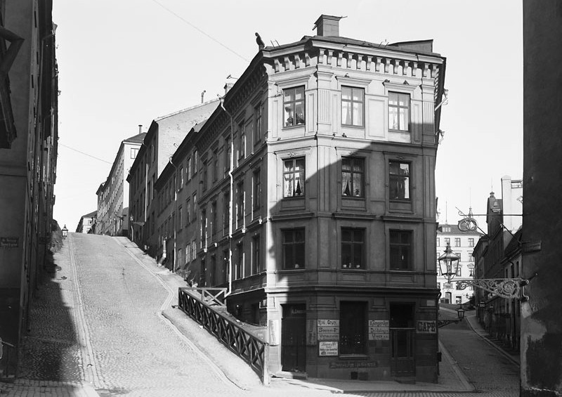 Brännkyrkagatan och Bastugatan vid kv. Fotangelns östra del. 1909-1909FOTOGRAF: Heimer, Oscar.BILDNUMMER: E 30102Stadsmuseet i Stockholm